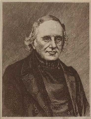 Hans Nissen (1788-1857), Danish farmer and political activist